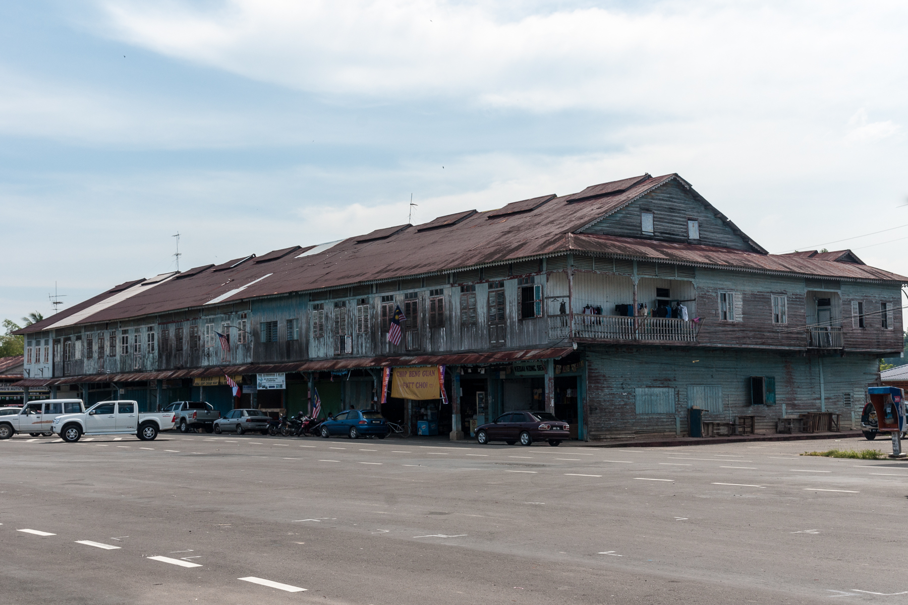 Membakut, Sabah: Old shophouses)